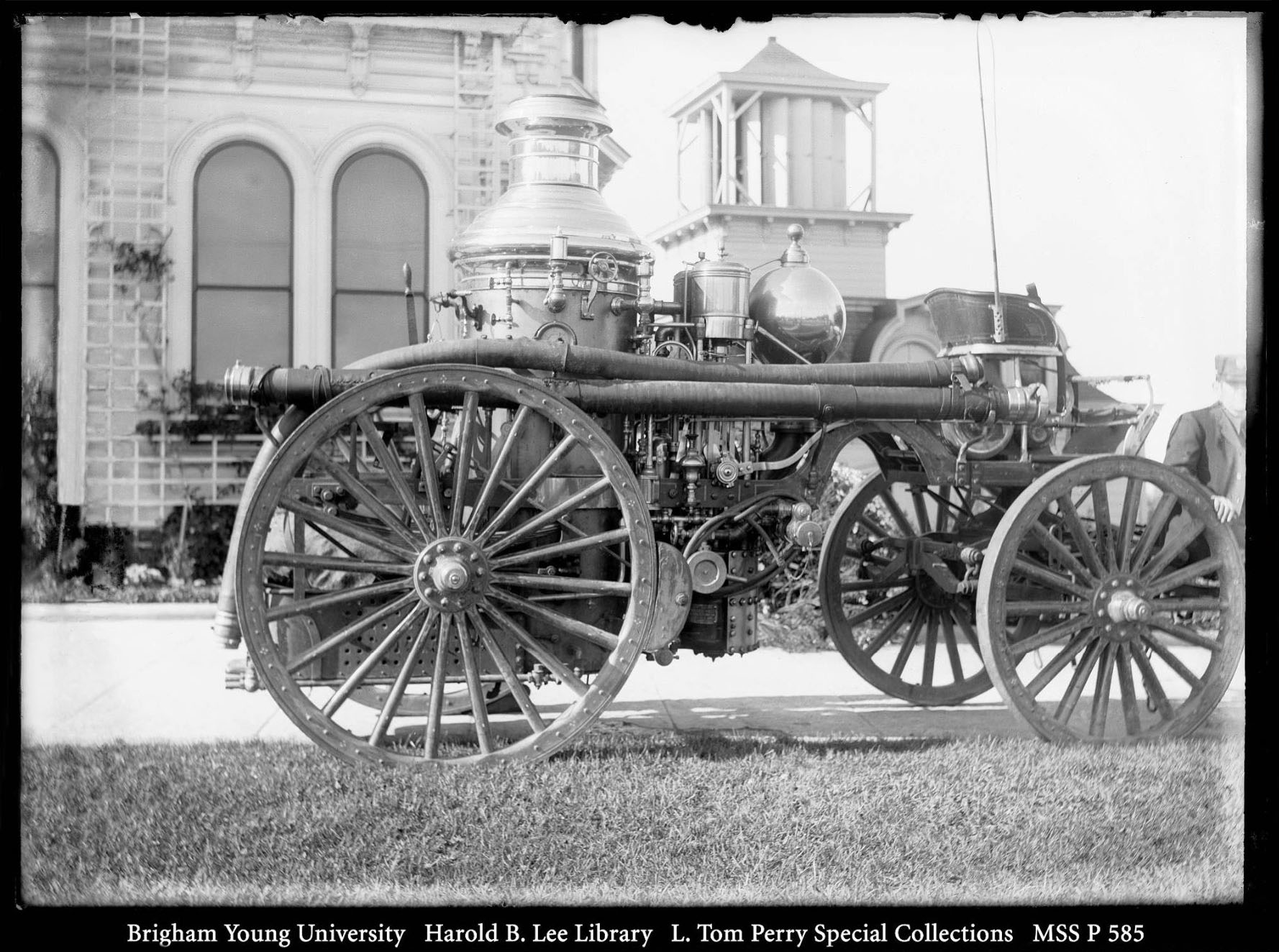 A large steam engine with four wooden wheels with spokes resembling an early automobile is on a platform in front of a building. A man in an engineer suit is standing at the right; half of him is cut off.